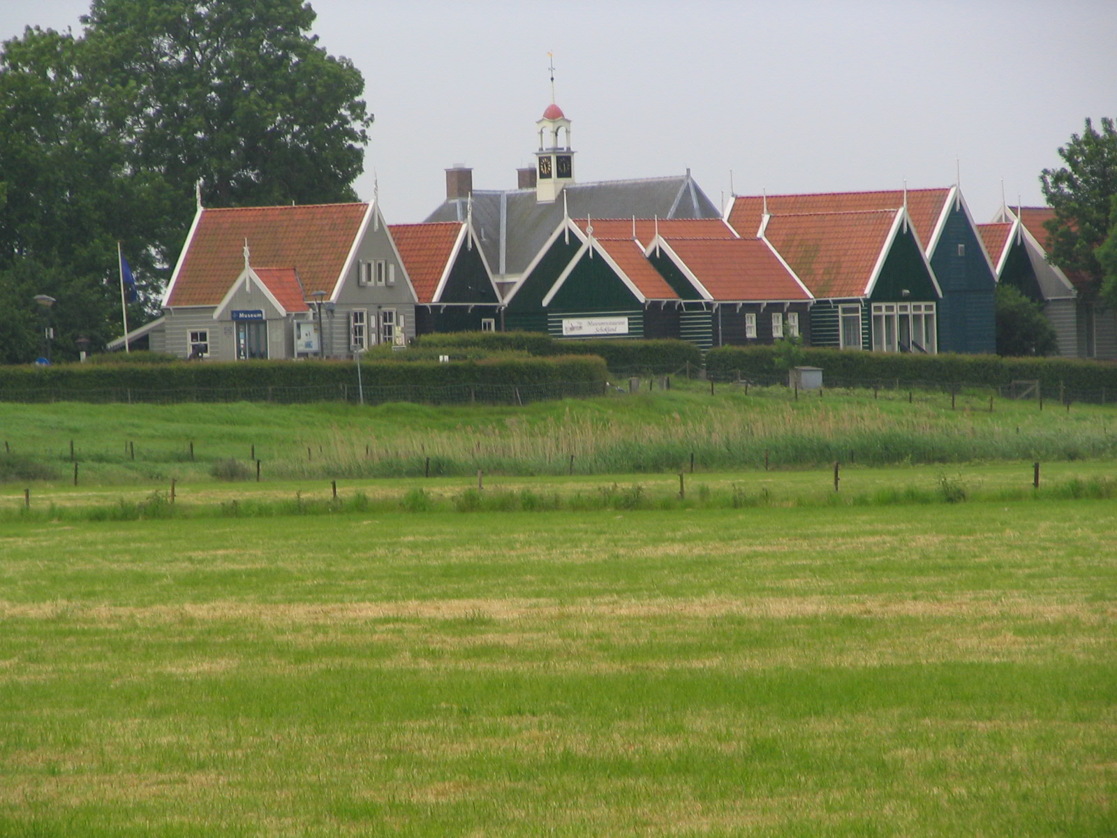 Schokland, Flevoland, the Netherlands